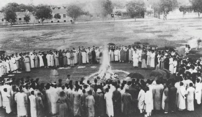 Burn Japanese goods, Tsinghua School, China, 1919.